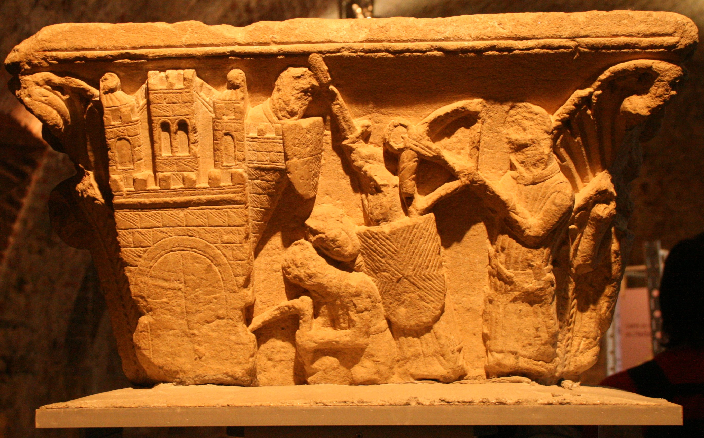 Capitell romànic de mitjan segle XII que il·lustra la història de Sant Volusià. Museu del Castell de Foix. Ariège. França